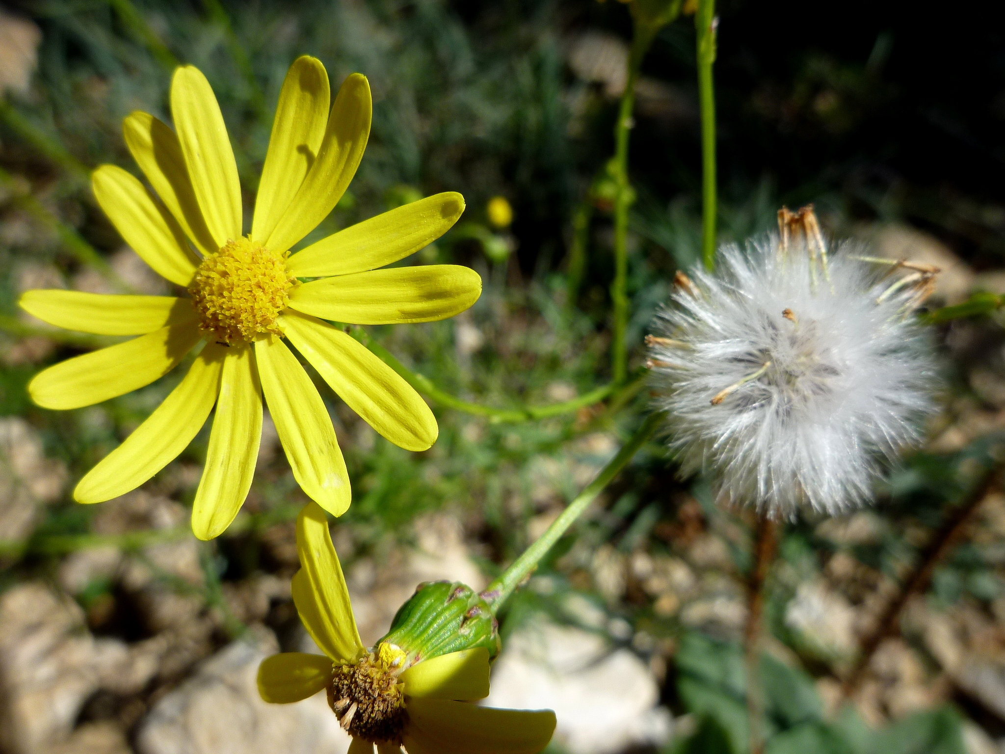 Senecio erucifolius. In Serrat de la Matella of Gósol (Berguedà - Catalunya). To 1.600 m. altitude.